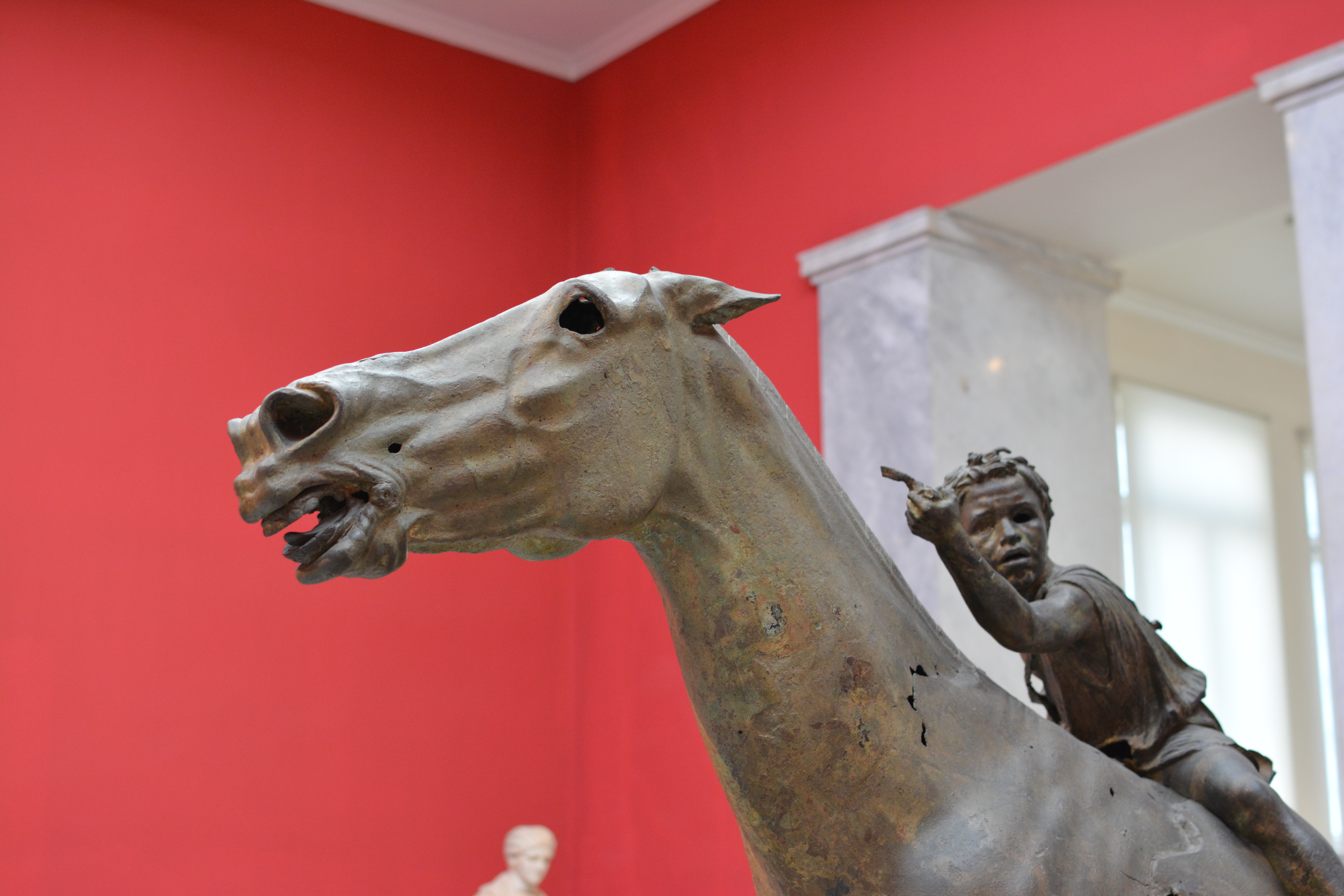 Jockey of Artemision detail of horse head National Archaeological Museum, Athens, 150-140 BCE